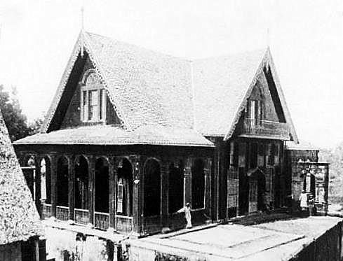 Manampisoa, residence of Queen Rasoherina within the Rova of Antananarivo, Madagascar